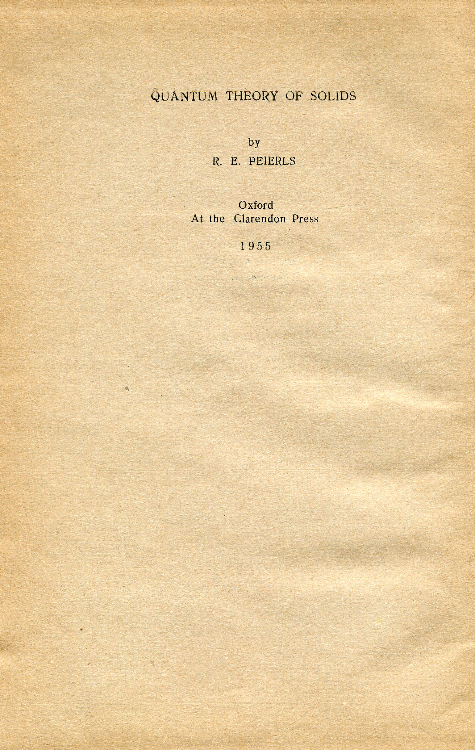 Rudolf Peierls. Book Quantum theory of solids.